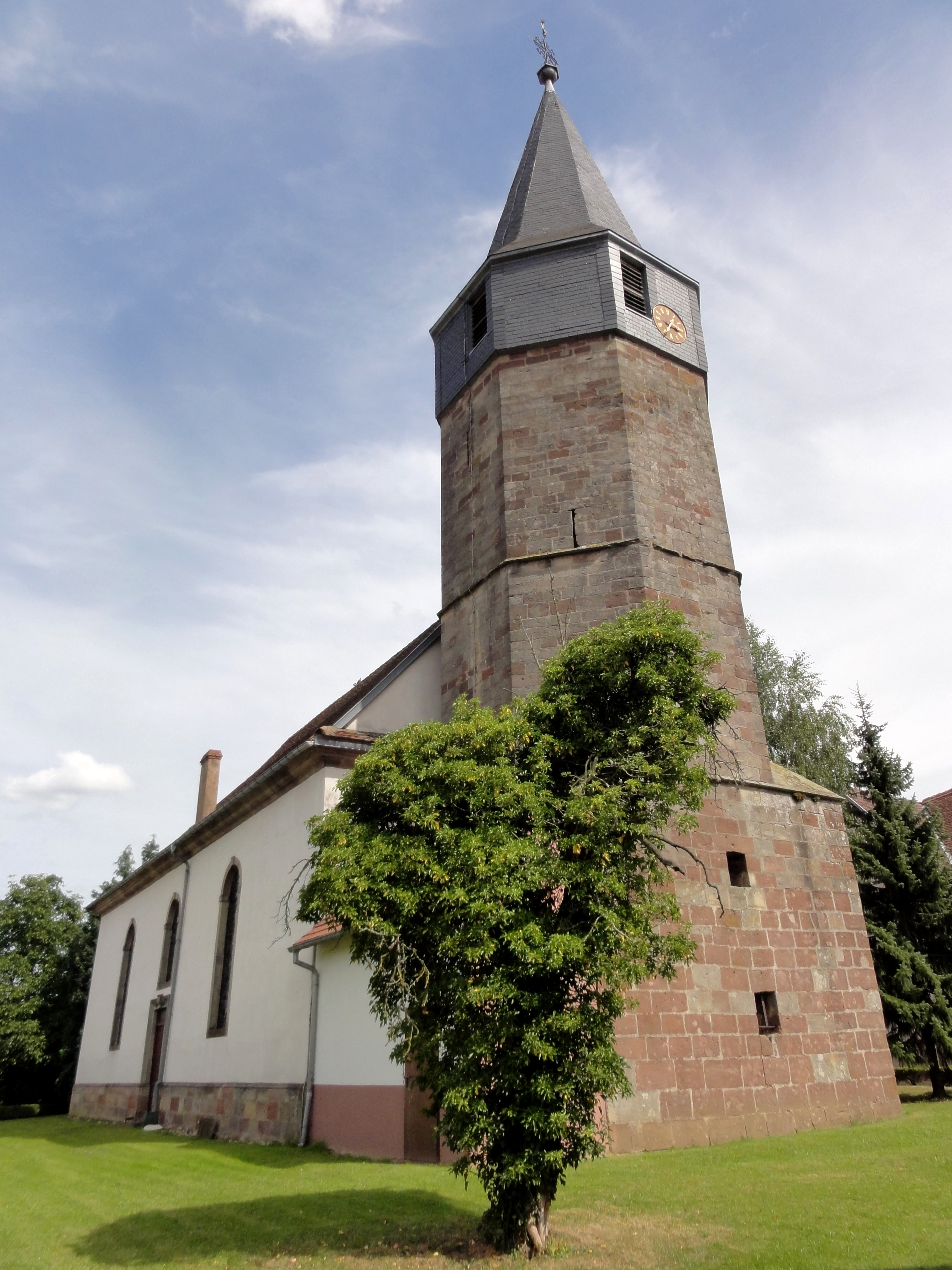 Alsace, Bas-Rhin, Waldhambach, Église protestante (1765)